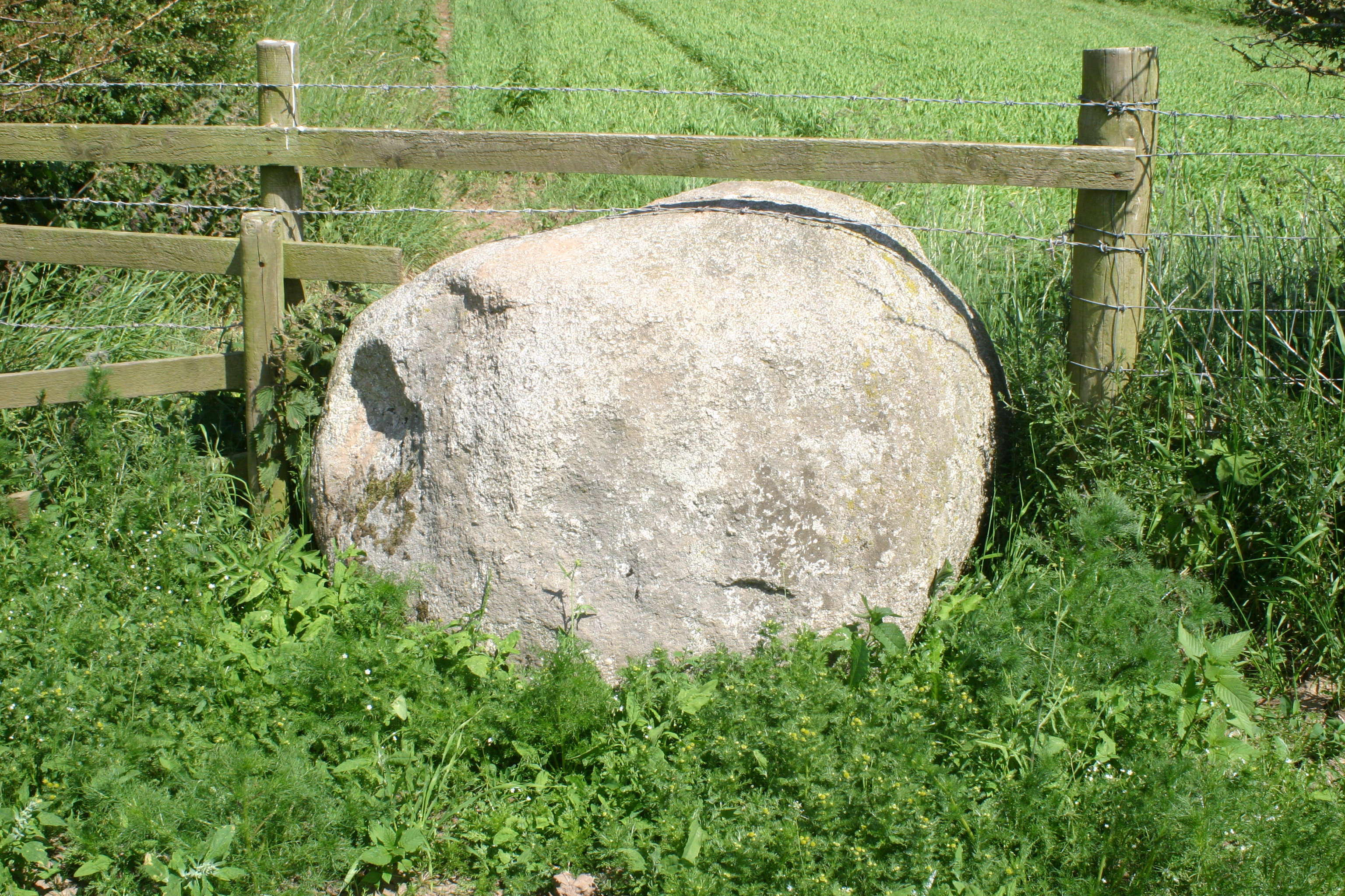 the Lochmaben Stones. The smaller of the 2 stones. Situated,in a hedge, a few meters away from the larger stone.Near Gretna Scotland